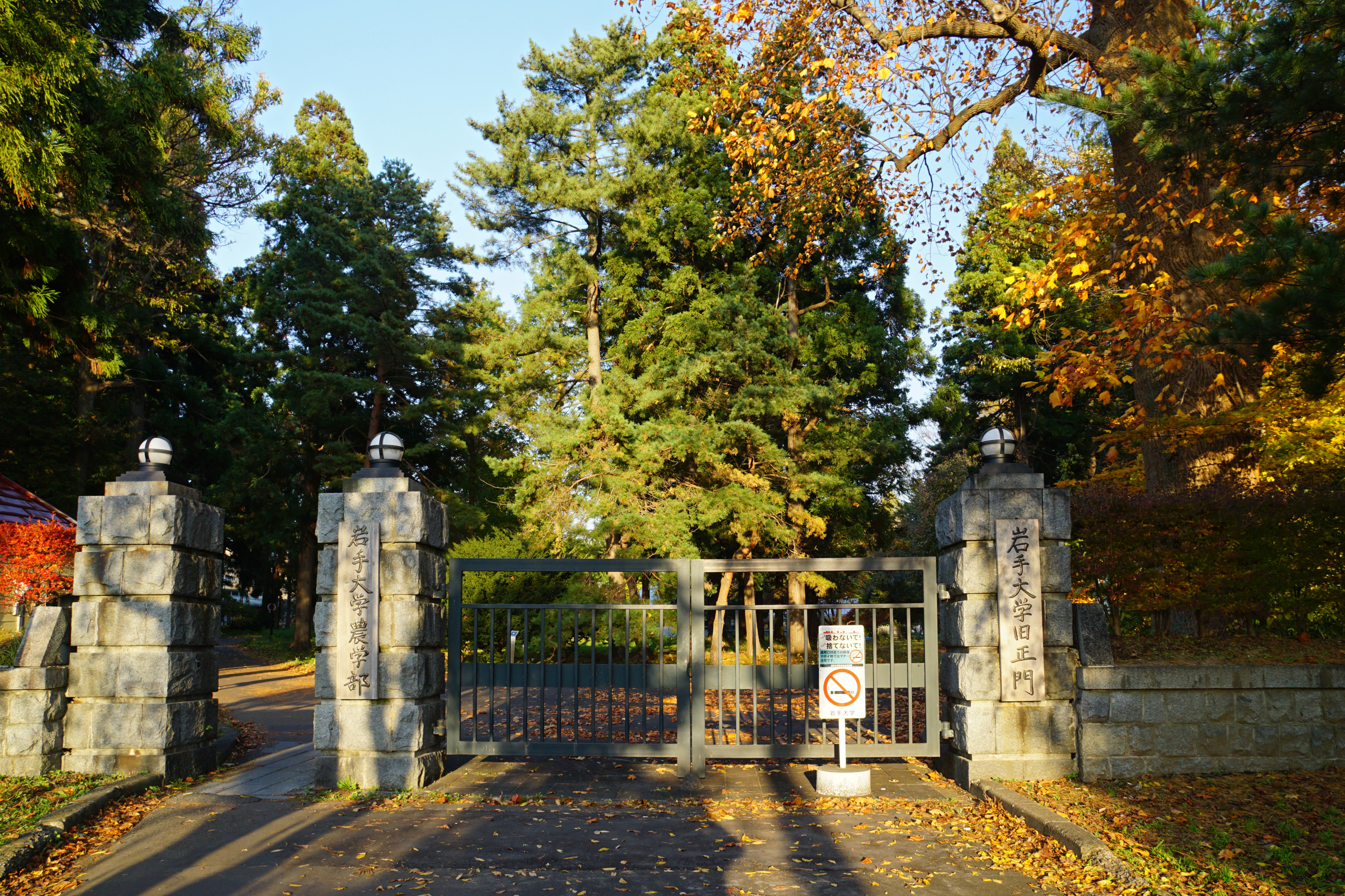 Iwate_University in Morioka, Iwate prefecture, Japan